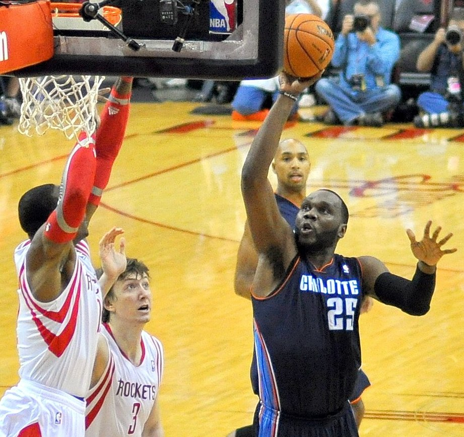 Al Jefferson takes a shot during his first regular season game as a member of the Charlotte Bobcats, October 30, 2013, versus the Houston Rockets at the Toyota Center in Houston, Texas. Defending for the Rockets are Dwight Howard (arms raised) and Omer Asik.